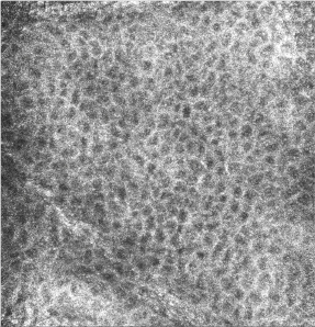 An image that was shot using the VivaScope confocal microscope.